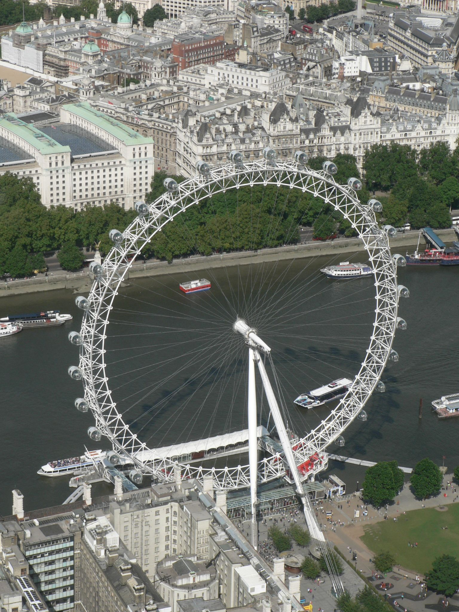 An aerial view of the London Eye.